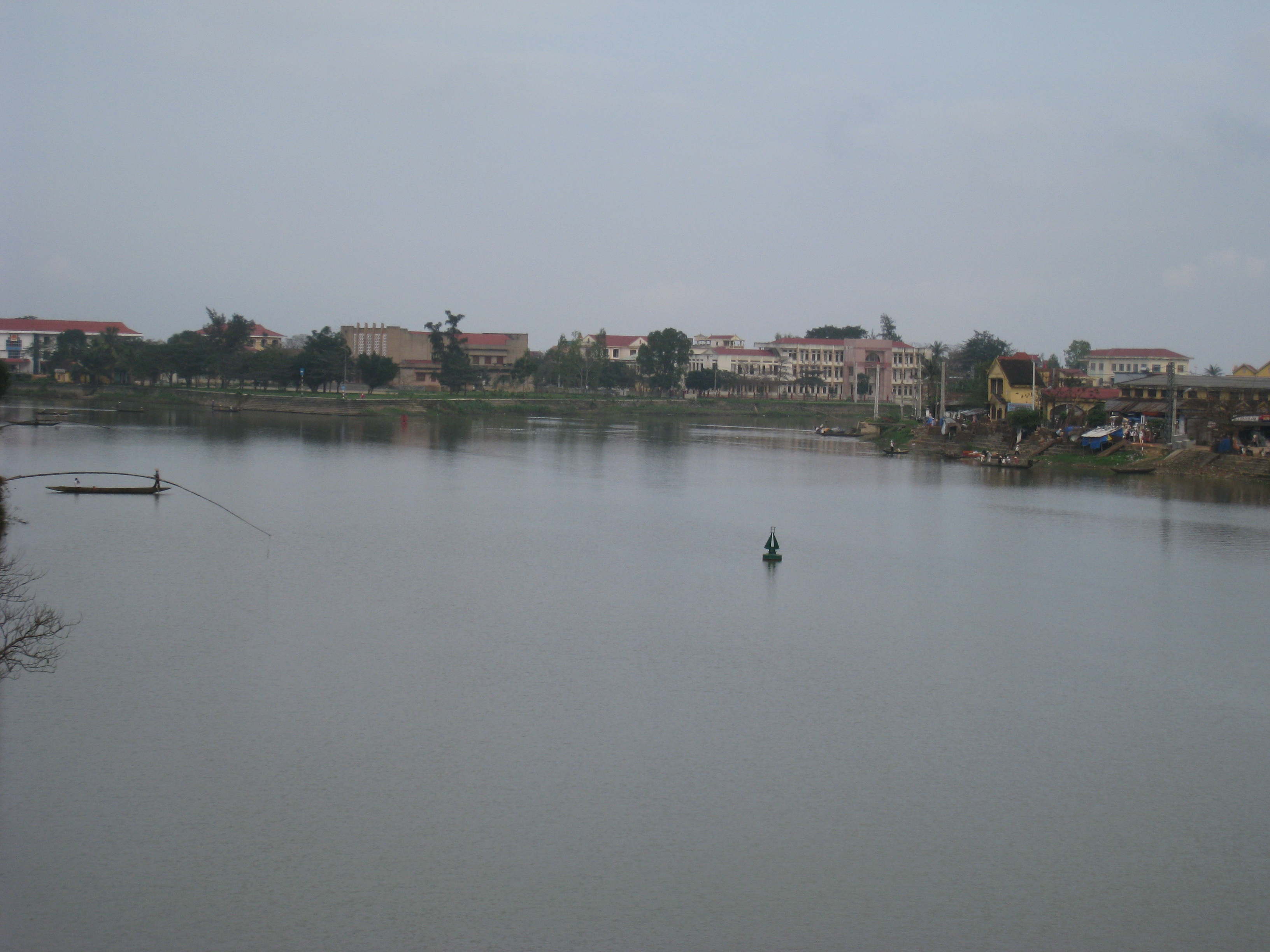 Kien Giang Town, the district seat of Le Thuy, Quang Binh, Vietnam